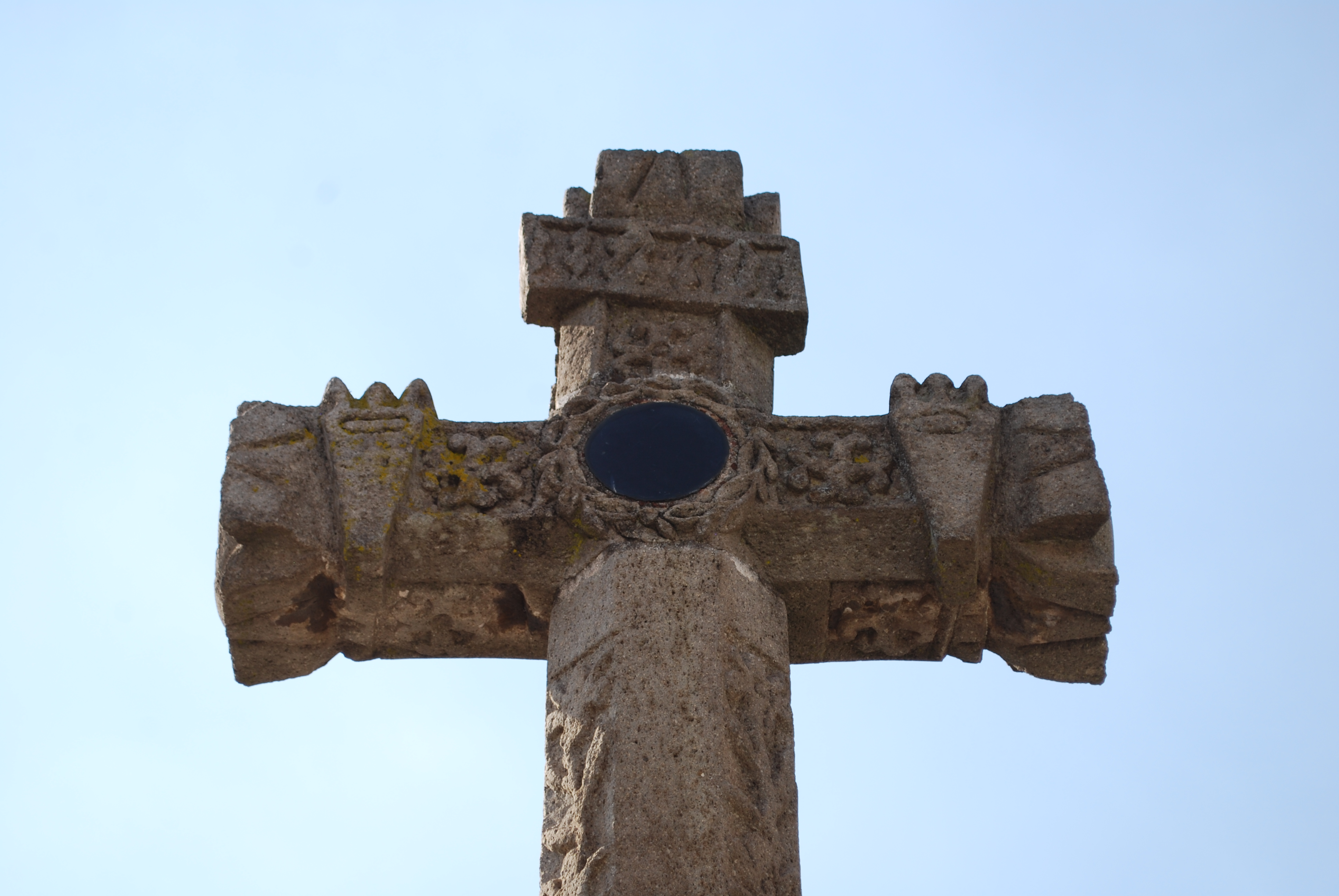 Obsidian mirror imbedded in the atrium cross of the San Jose Parish in Ciudad Hidalgo, Michoacan